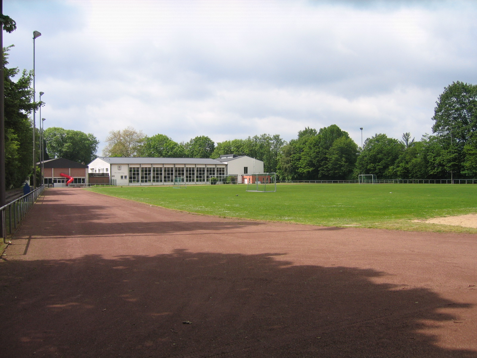 in Bünde, District of Herford, North Rhine-Westphalia, Germany.